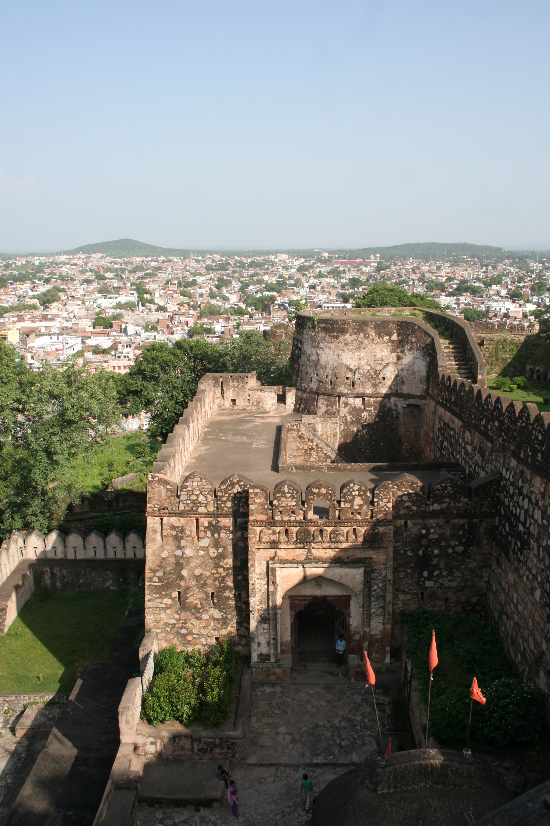 Jhansi Fort and city.